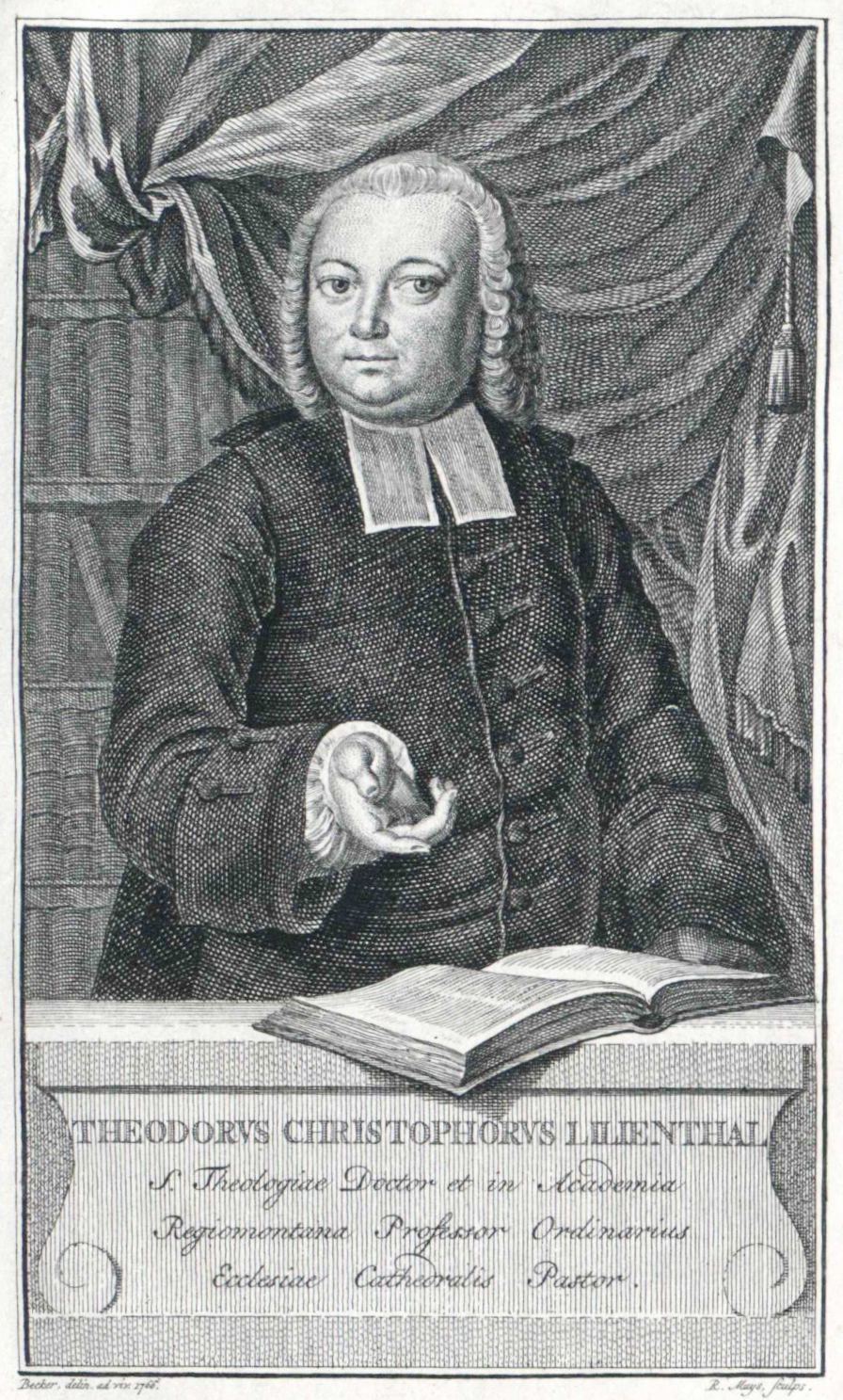 Theodor Christoph Lilienthal (1717–1781)